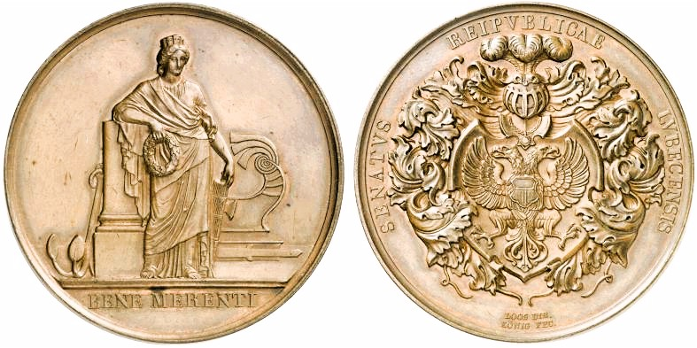 Municipal medal "Bene Merenti" frpom Lübeck, Germany. Bronze medal struck between 1917 and 1923 instead of the usual gold medal.